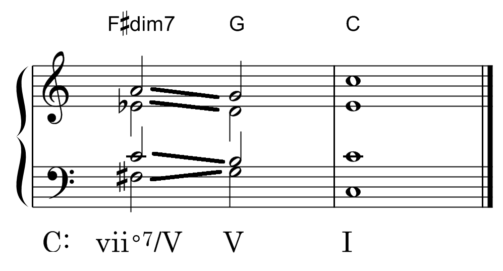 A chord progression with a secondary leading-tone chord. viio7/V - V - I in C major.